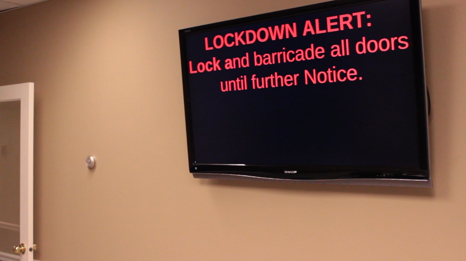 A large LCD television mounted on a wall, in an office environment, as part of a digital signage component that comprises the MessageNet systems Connections product. Image freely donated by MessageNet systems, to wikimedia, with all rights released.